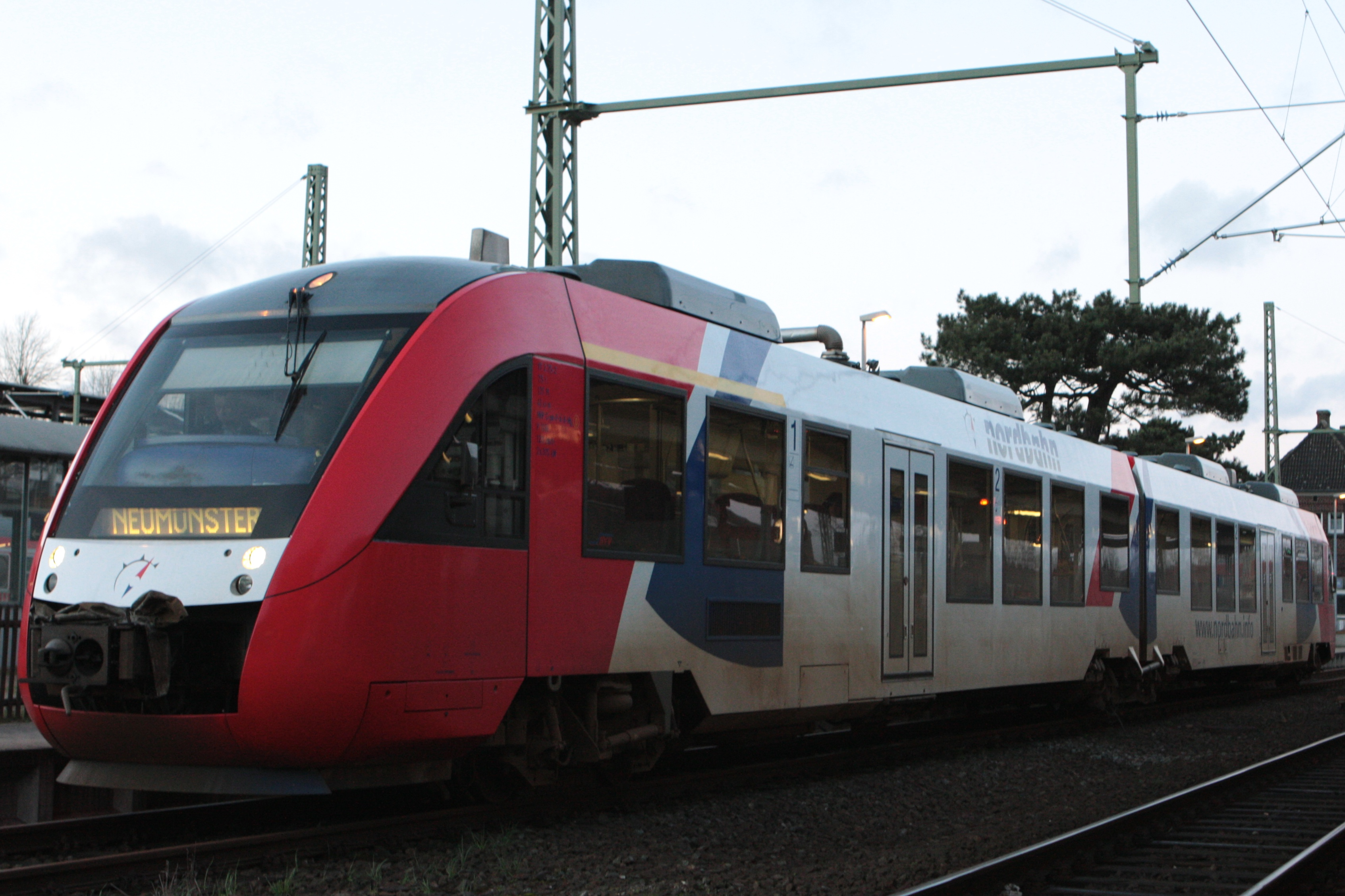 Nordbahn - Alstom LHB Coradia LINT